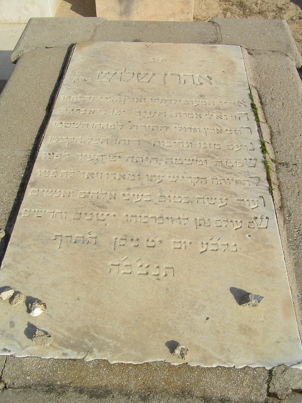 Aharon Chelouche (founder of Nve Tzedeq) tomb in Trumpeldor cemetery in Tel Aviv February 2006, by Eman